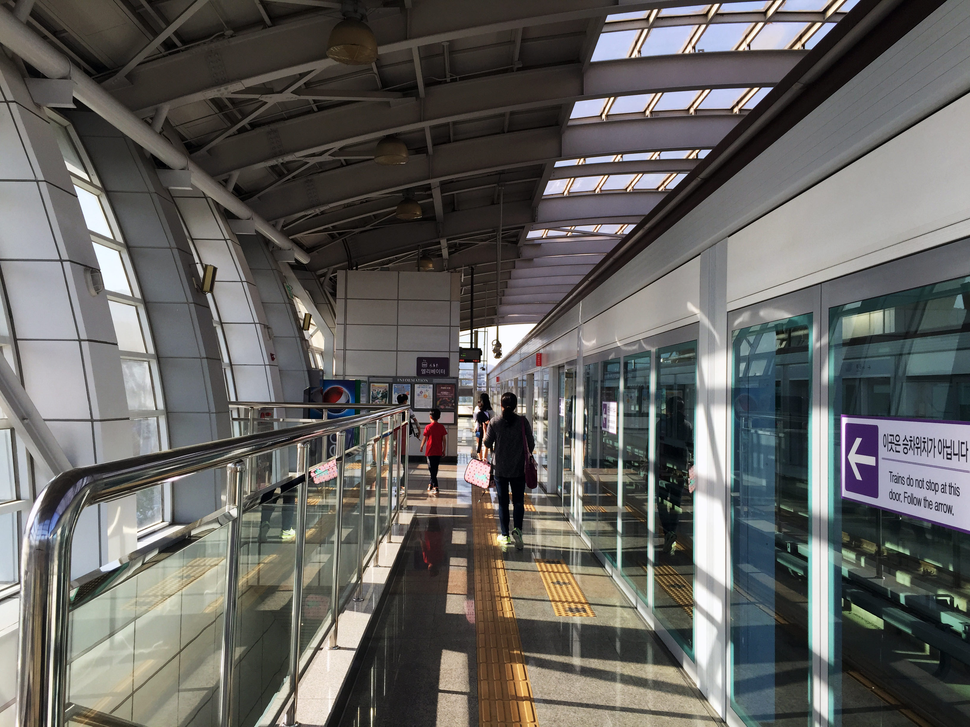 Platform of Bonghwang (Gimhae Bus Terminal) Station